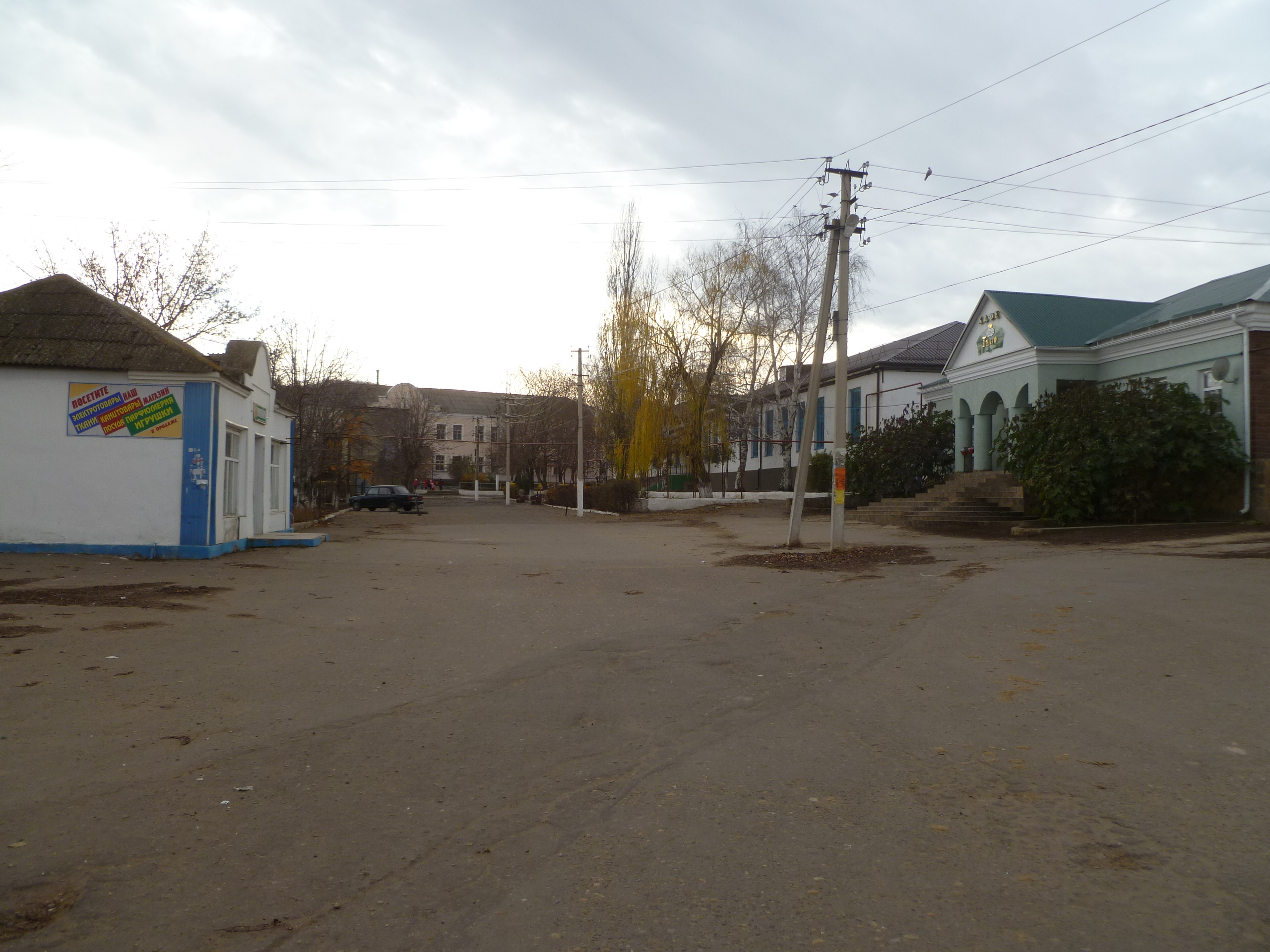 Konstantinovka